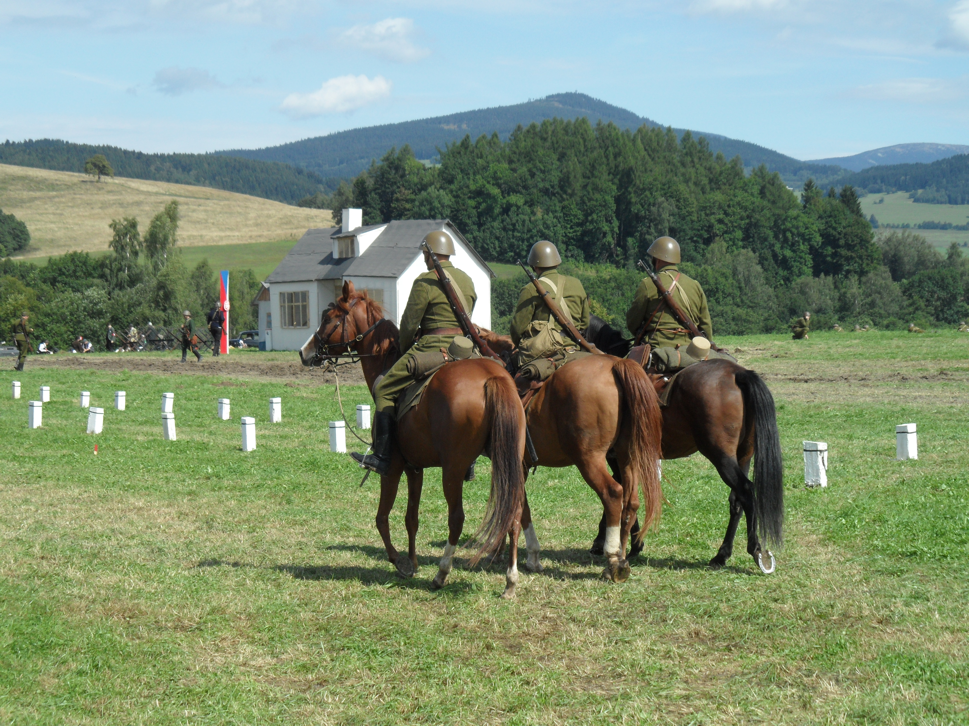 Akce Cihelna 2014 E01. Main Historical Presentation: Mobilisation 1938 (Saturday), Králíky, Ústí nad Orlicí District, the Czech Republic.